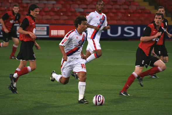 Nick Carle against Fulham.